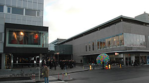 Rawr